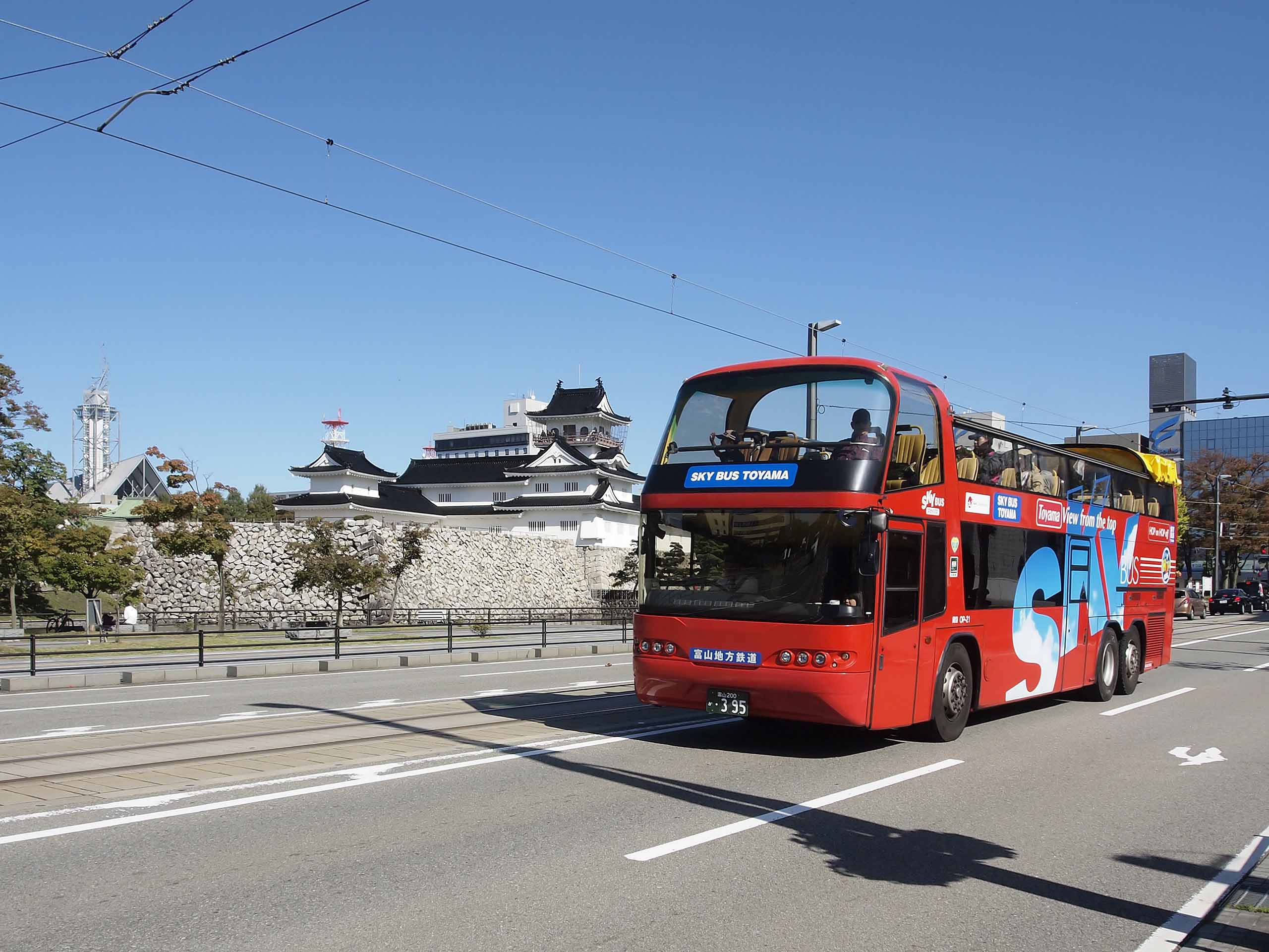 Sky Bus Toyama, city tour in Toyama, operated on May 22 to October 31, 2019. Model: Neoplan Skyliner License plate: TYT200KA0395 Rent from Hinomaru Jidosha Kogyo Place: neighbor of Toyama Castle Park, Marunouchi, Toyama City, Toyama Japan